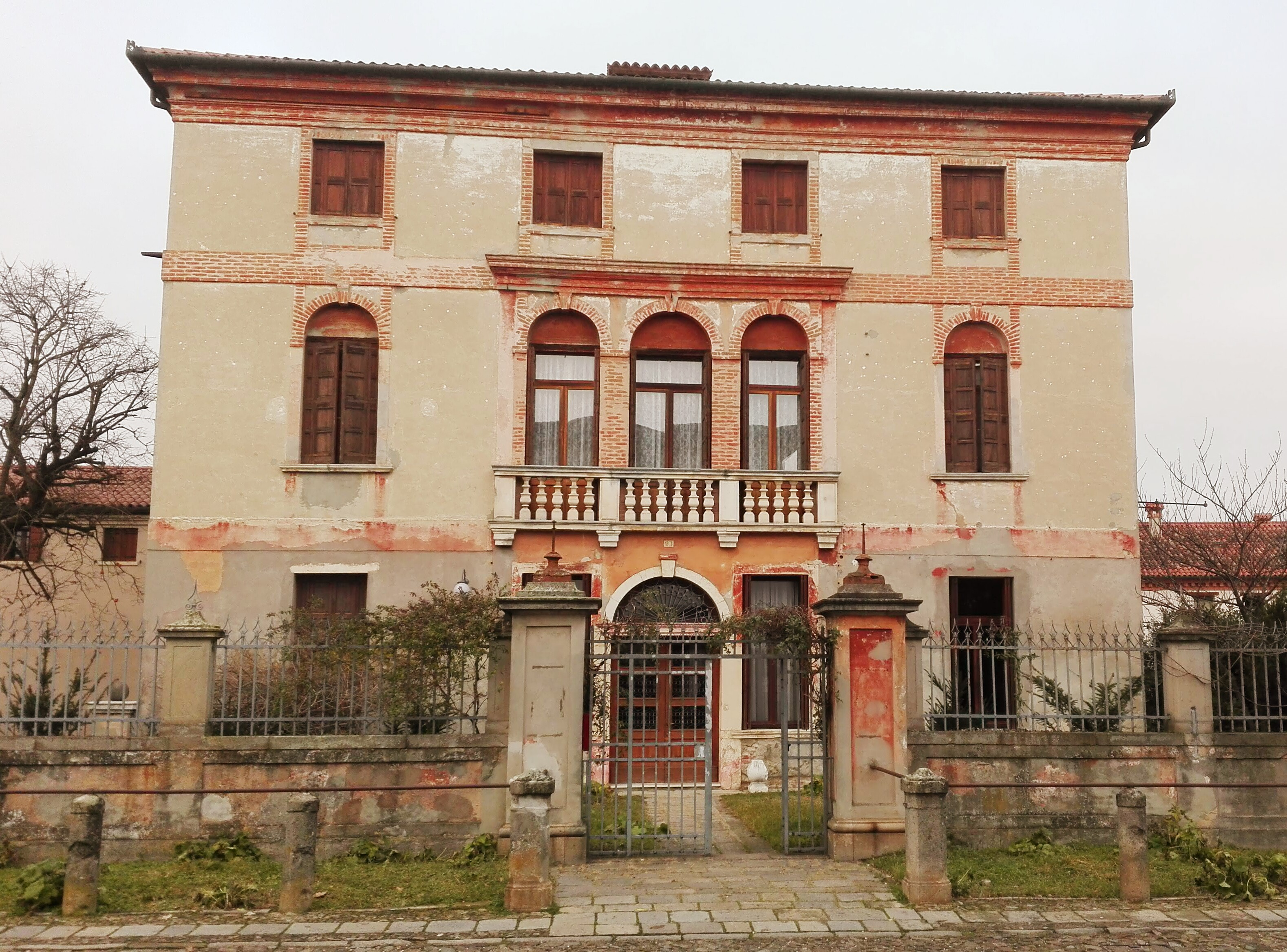 Villa Grimani Ca' Pasqualigo